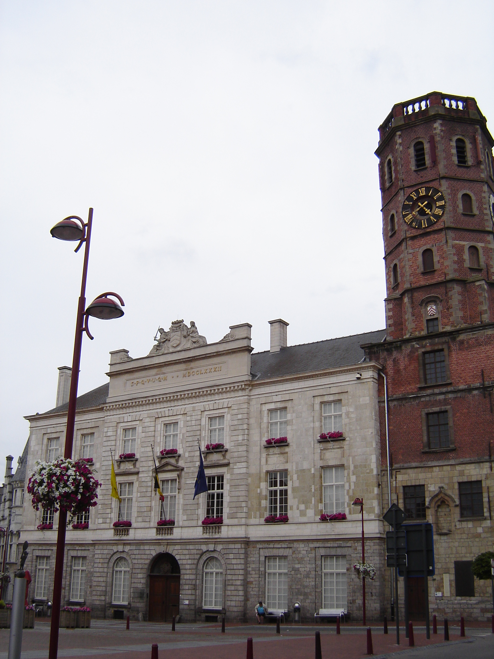 City hall and belfry of Menen. Menen, West Flanders, Belgium